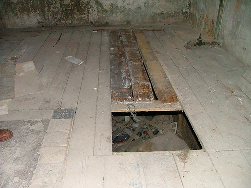 Mikvah in Jeszywas Chachmej Lublin